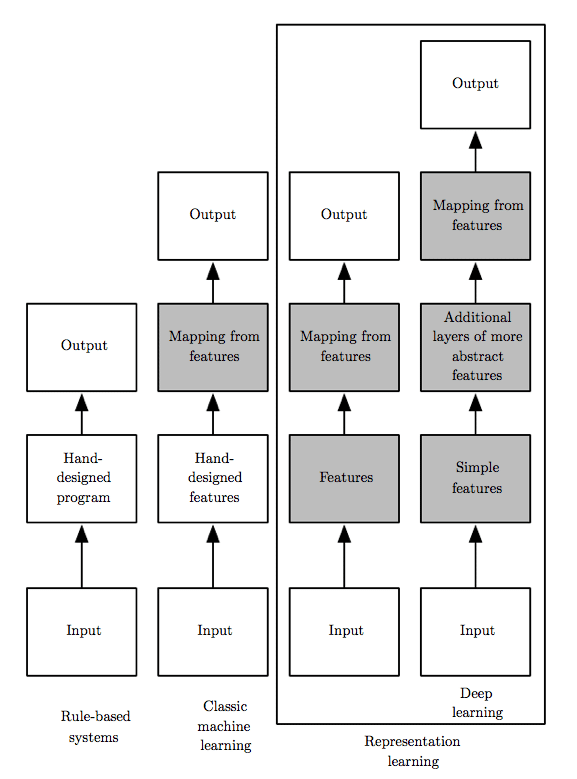 Монгол: Representation-learning, deep learning, machine learning